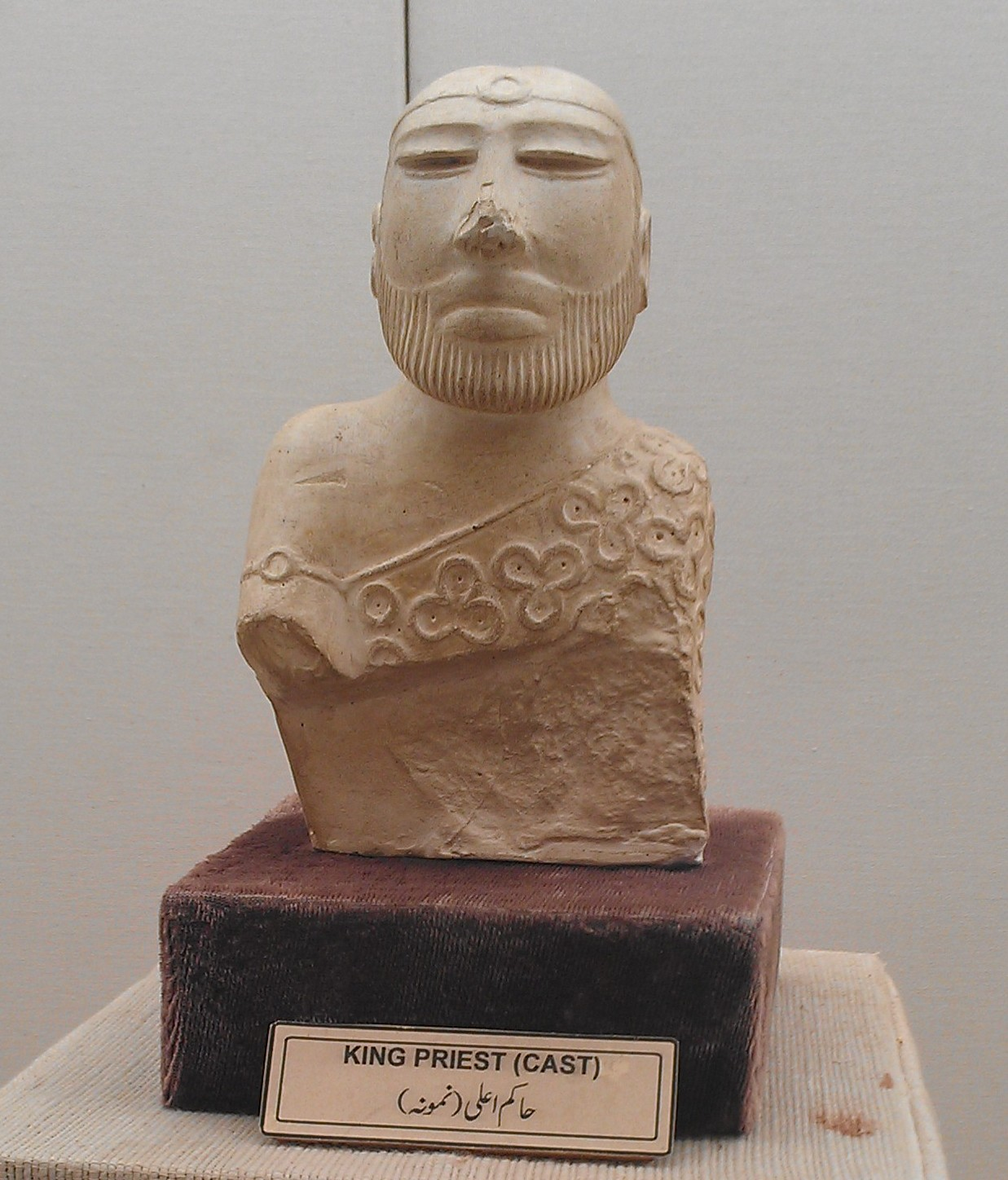 model of Moenjodaro Priest wearing Ajrak motive This is a photo of a monument in Pakistan identified as the SD-41